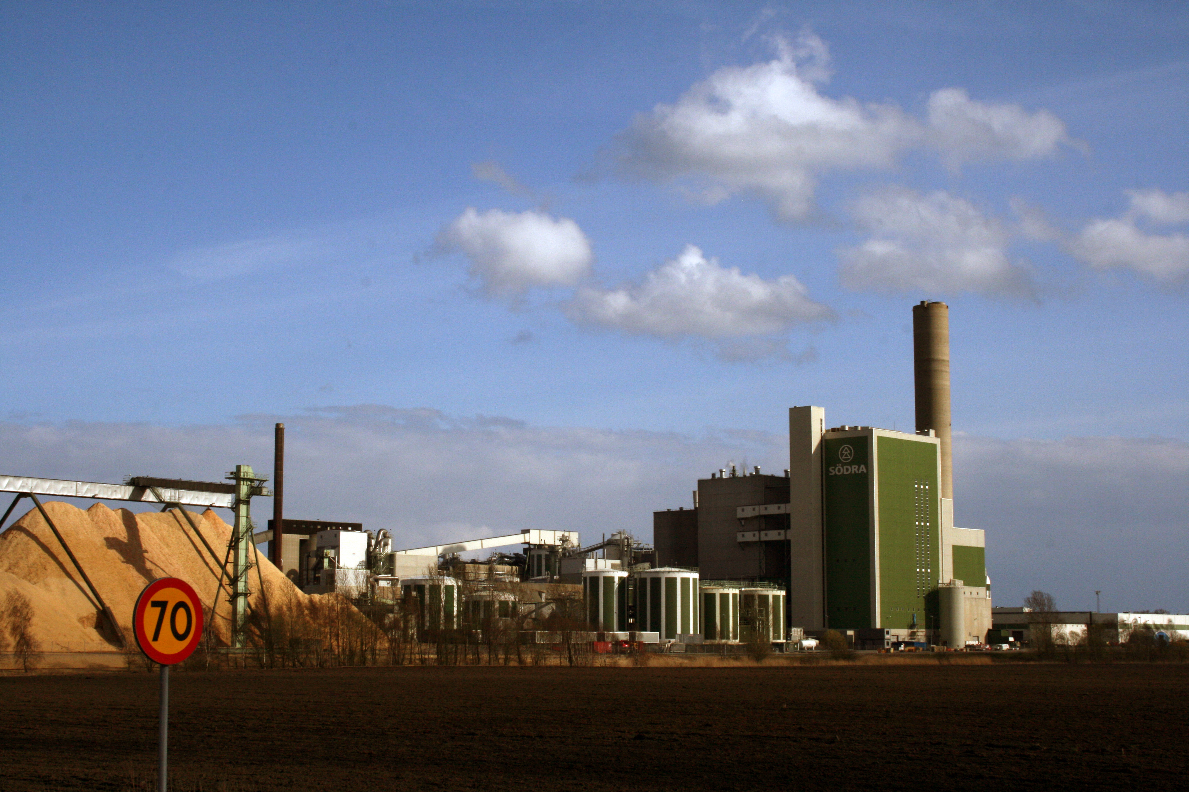 Pulp mill in Mörrum, Sweden